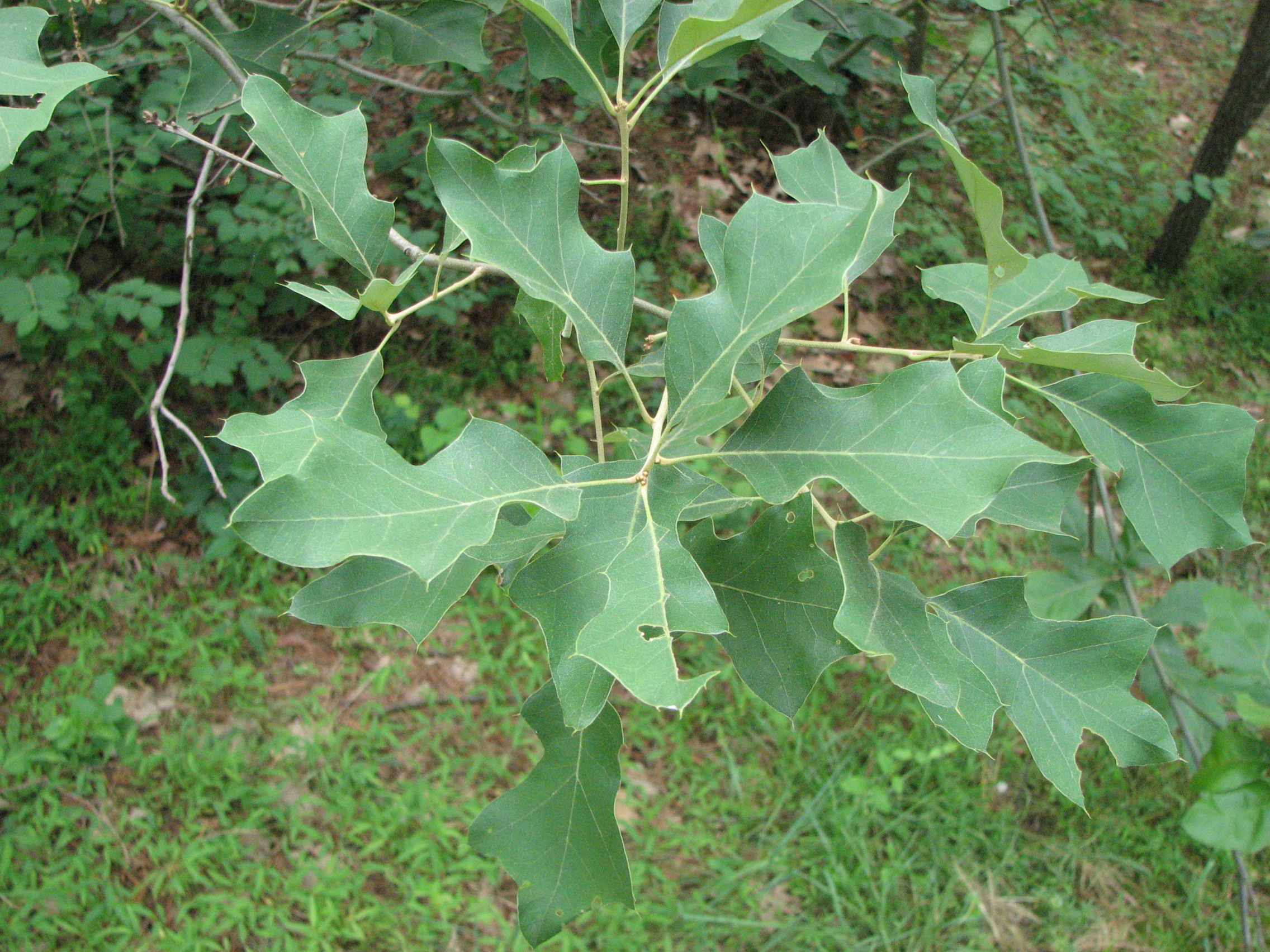 Detail of leaves of Quercus ilicifolia growing on serpentine barrens, Nottingham County Park, Nottingham, Pennsylvania.